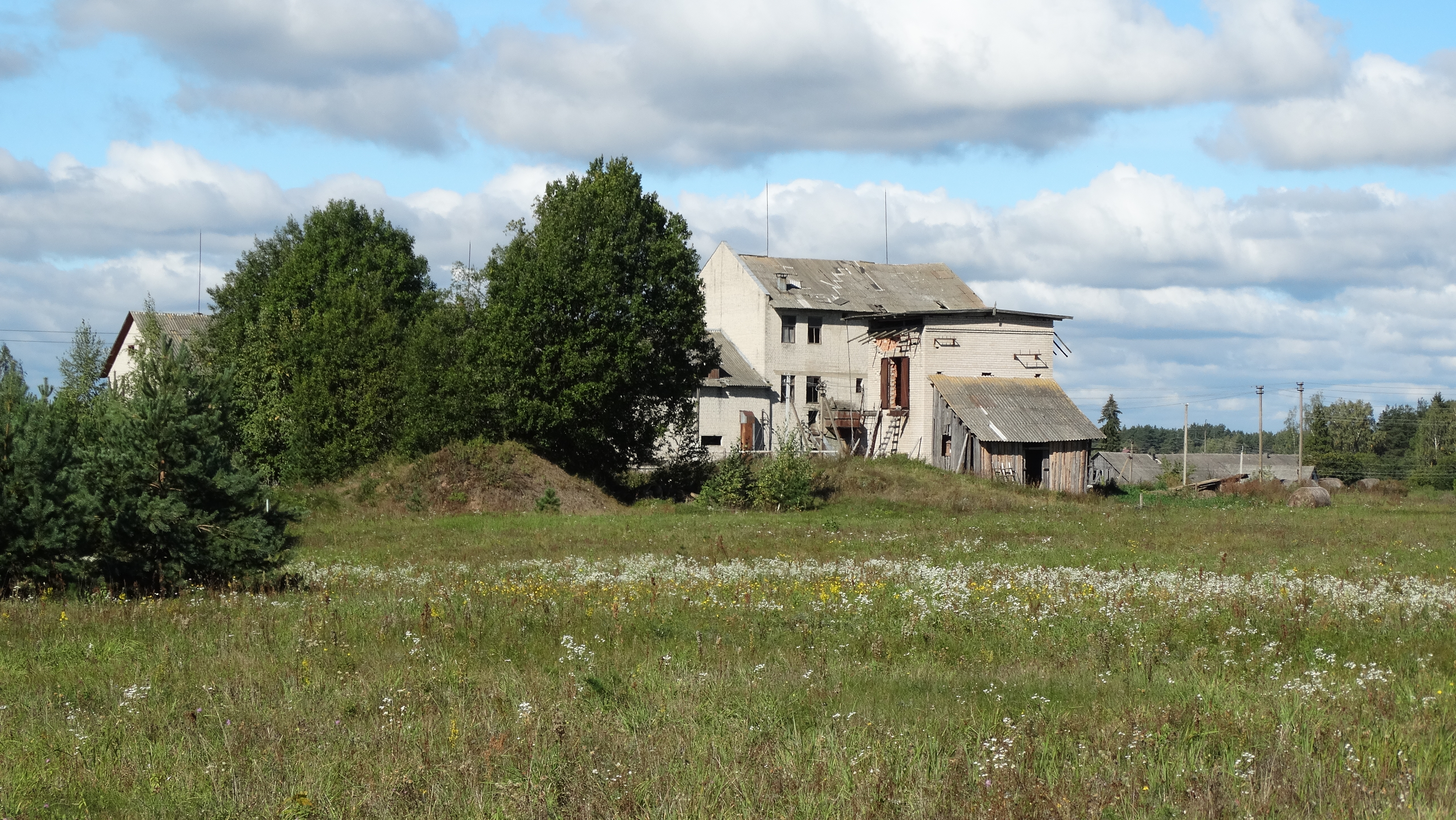 Didžiasalis, Ignalina District, Lithuania